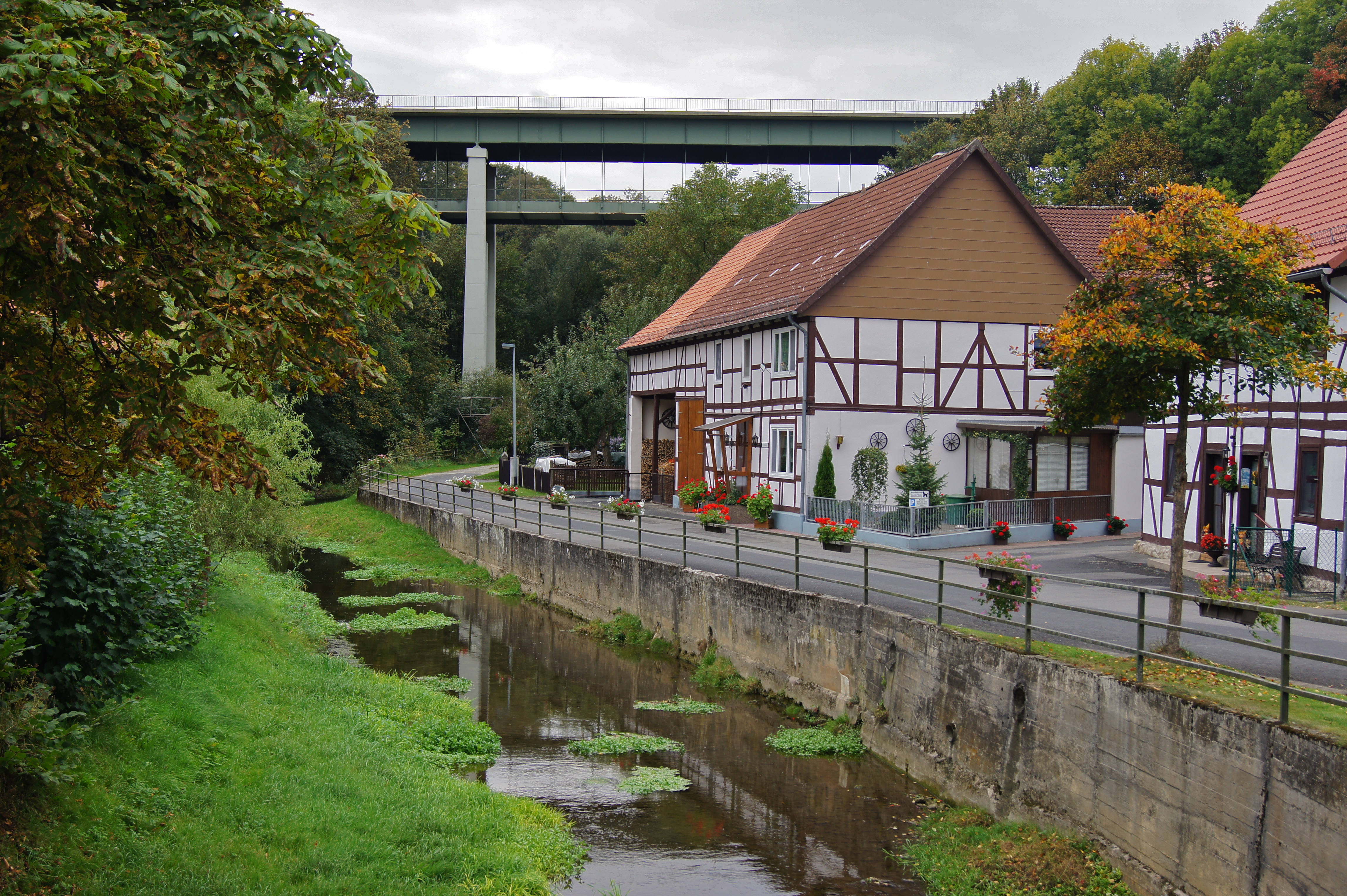 Einbeck (Kuventhal), Germany: Viaduct over the Krummes Wasser